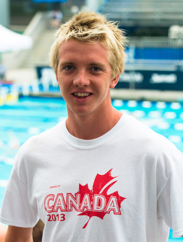 Eric Hedlin in Irvine, California, at the US Open in August, 2013. Picture taken by Mike Lewis (